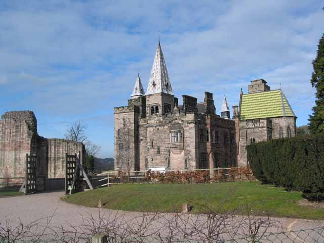 Photograph